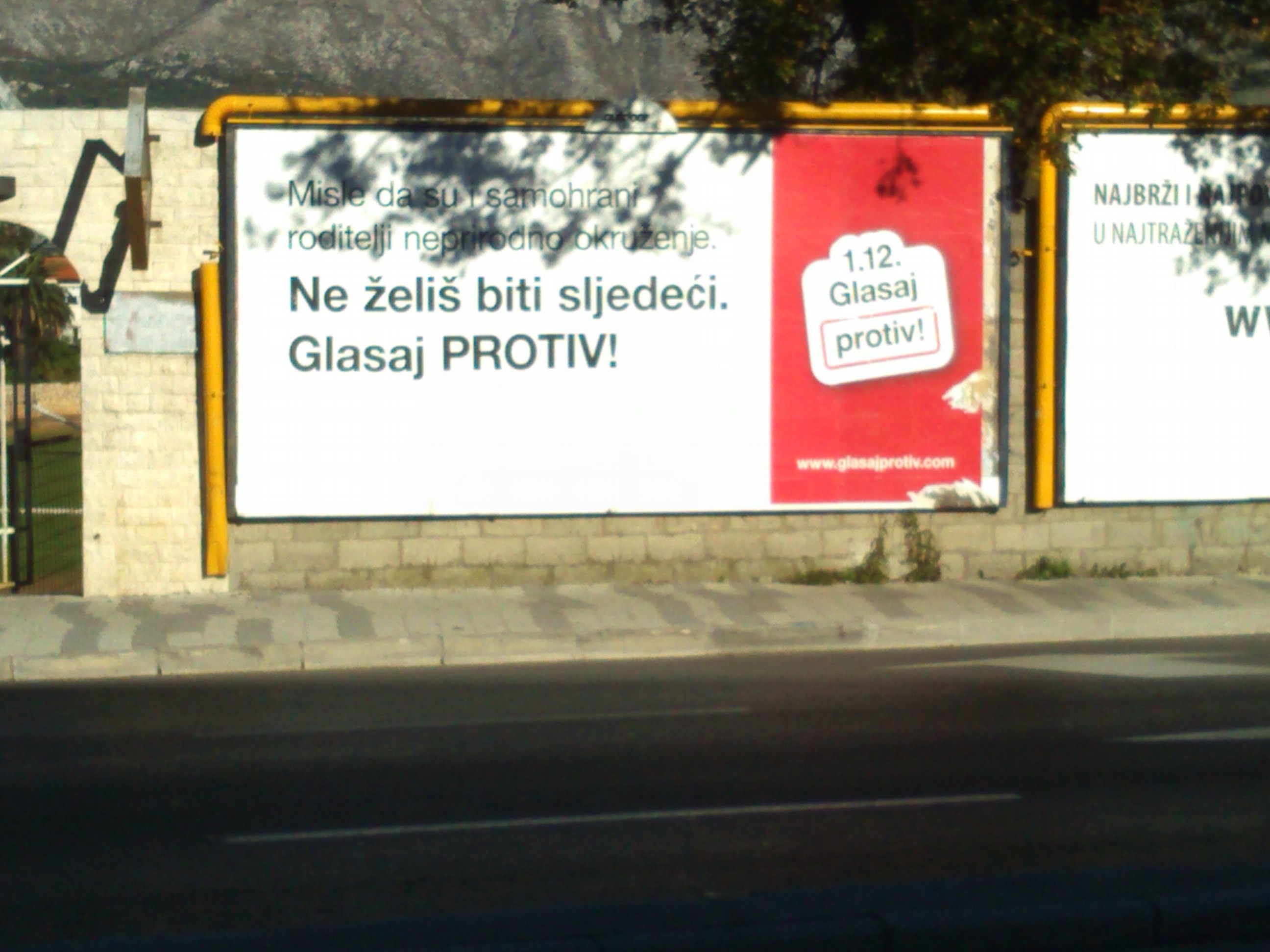 Poster "Glasaj protiv" in Dubrovnik